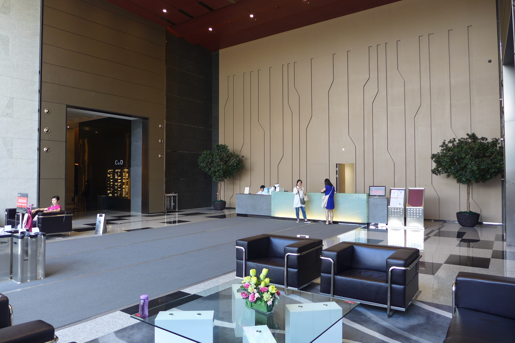 TML Tower